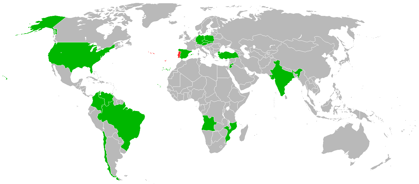 Additional Cape Verde and Angola